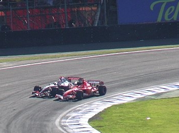 Formula One 2006 Rd.18 Interlagos: #5 Michael Schumacher (Scuderia Ferrari), last overtaiking